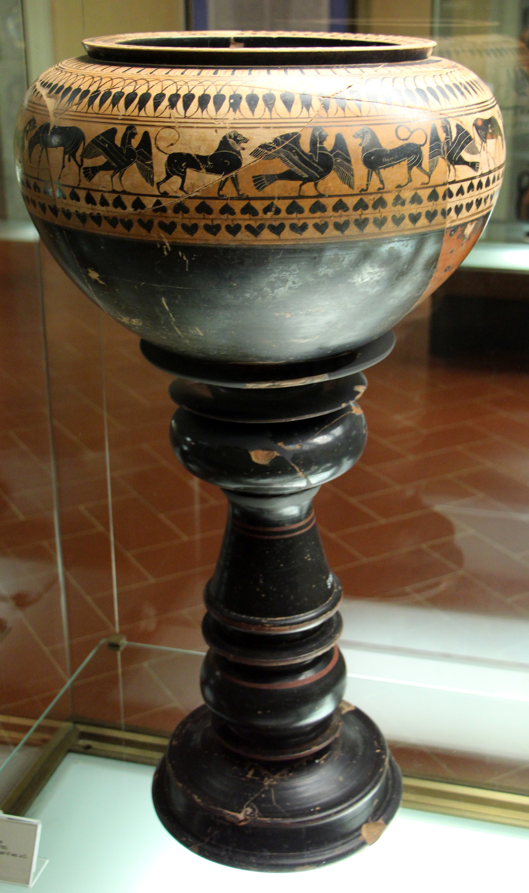 Ancient Greek pottery in the Museo archeologico di Firenze